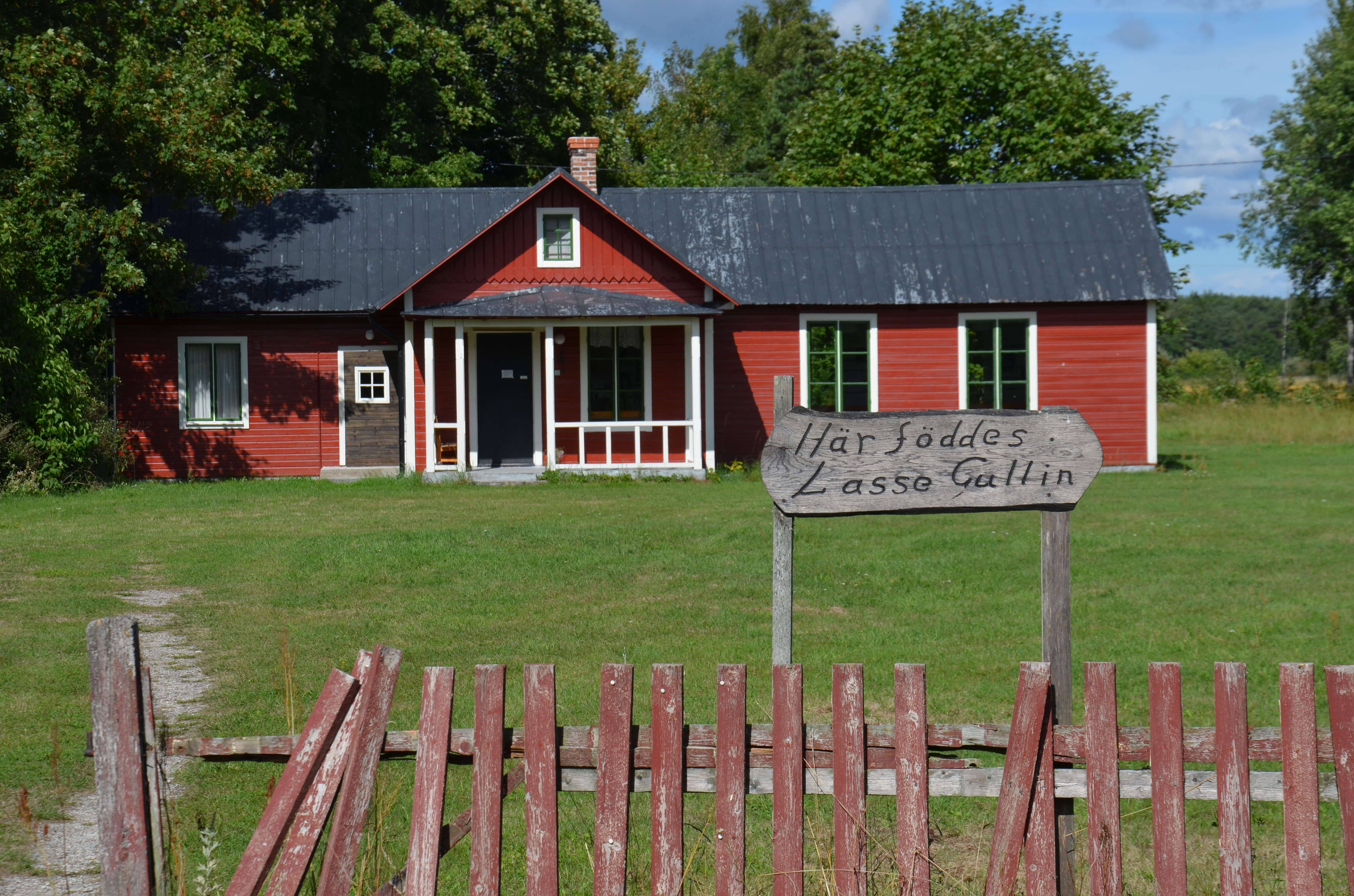 Tidigare Sanda stationshus, nu Lasse Gullinmuseet